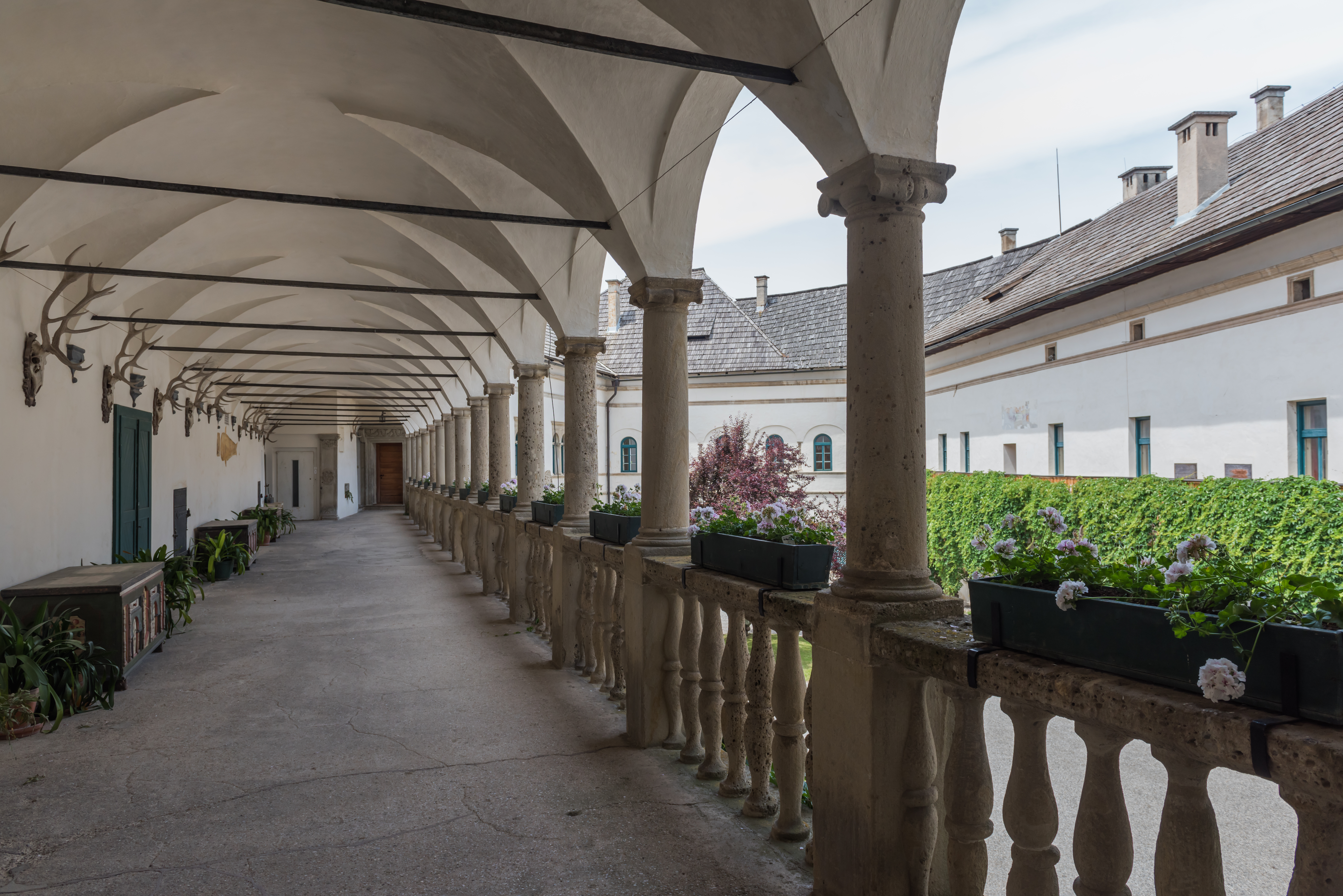 Access balcony of the arcade yard at castle Hollenburg in Hollenburg, municipality Köttmannsdorf, district Klagenfurt Land, Carinthia, Austria, European Union